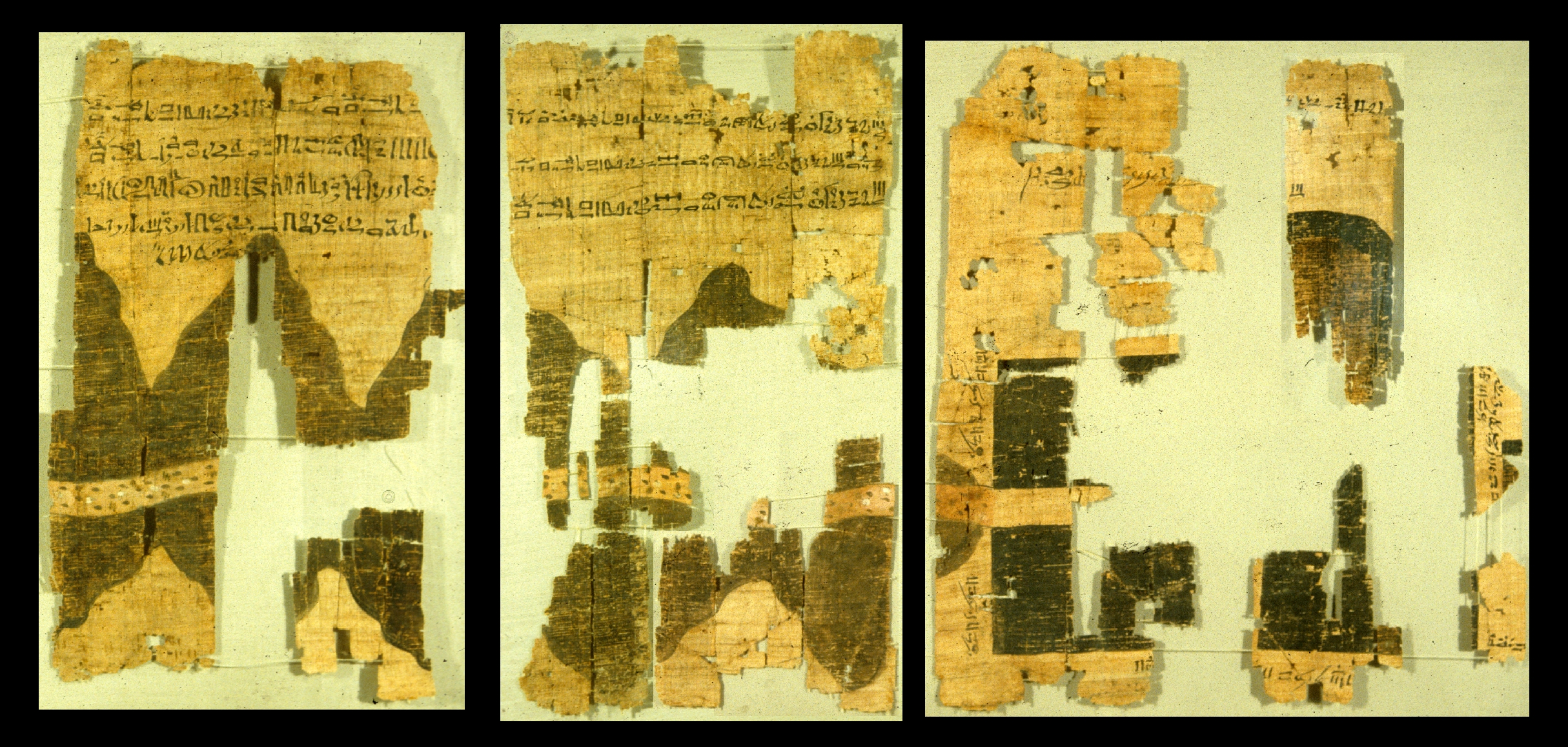 Fragments of Turin papyrus - an ancient Egyptian mining map (right half), for Ramesses IV's quarrying expedition, 12th century BC (New Kingdom)